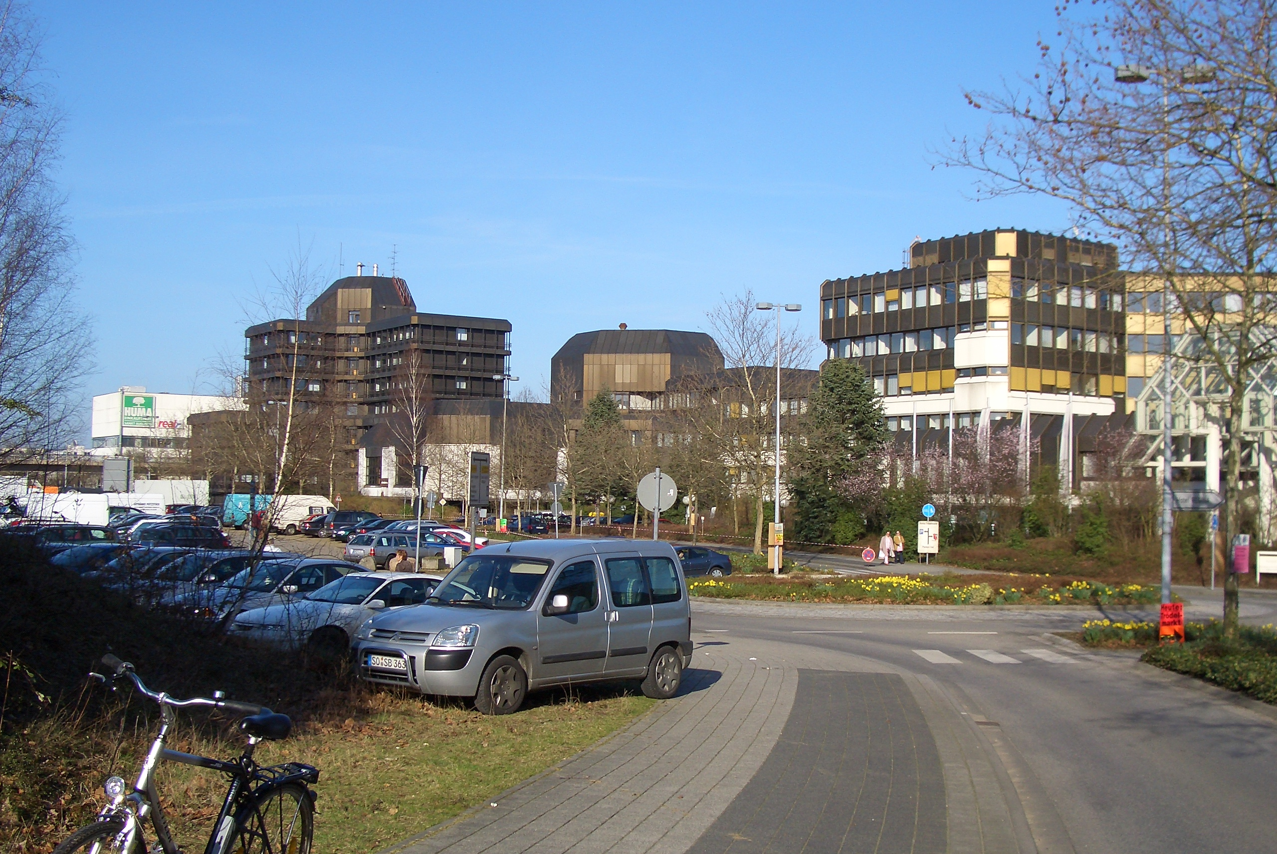 Photo of centre of Sankt Augustin, Germany.